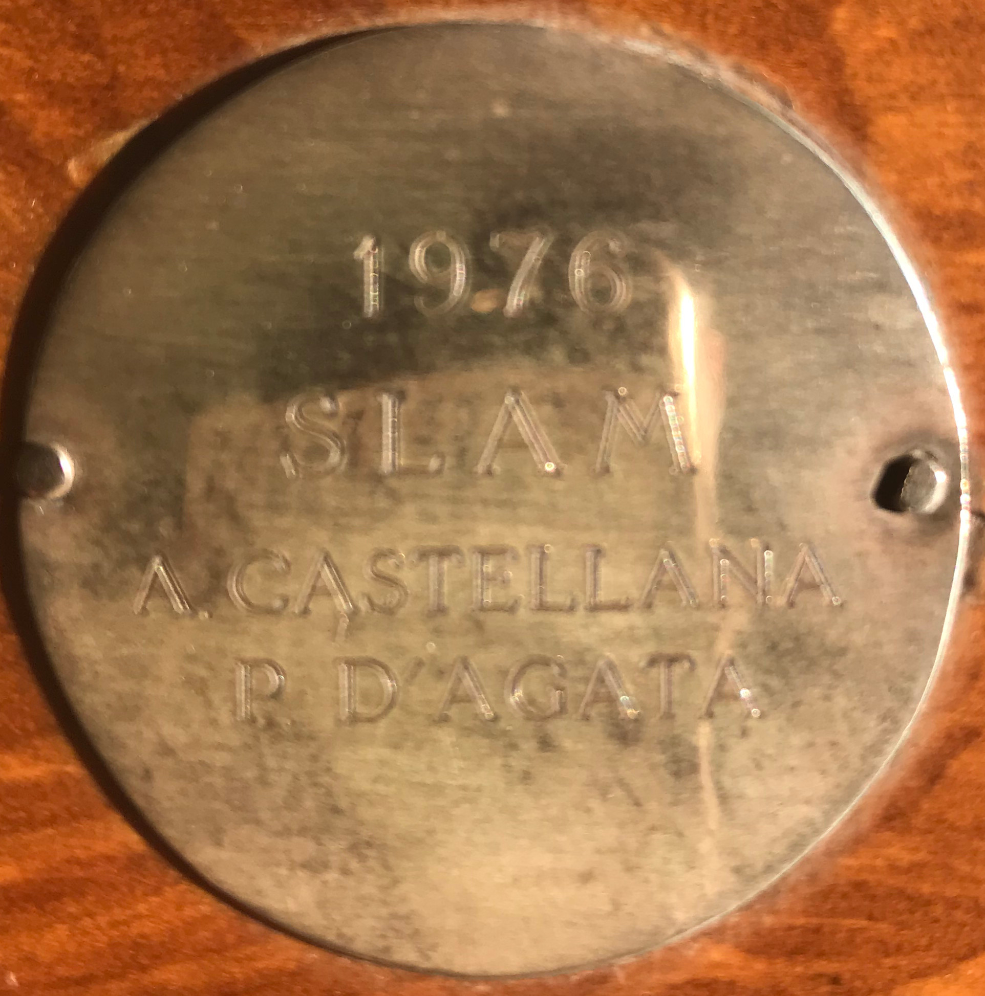 Patch on the Trophy